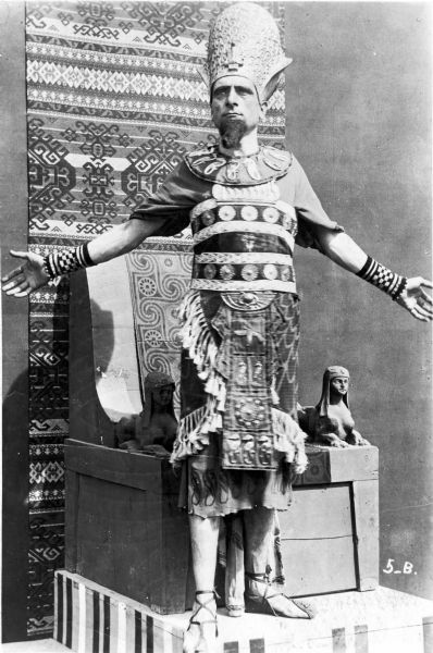 Art Acord as the Egyptian Kephren from the 1917 Fox production of Cleopatra.